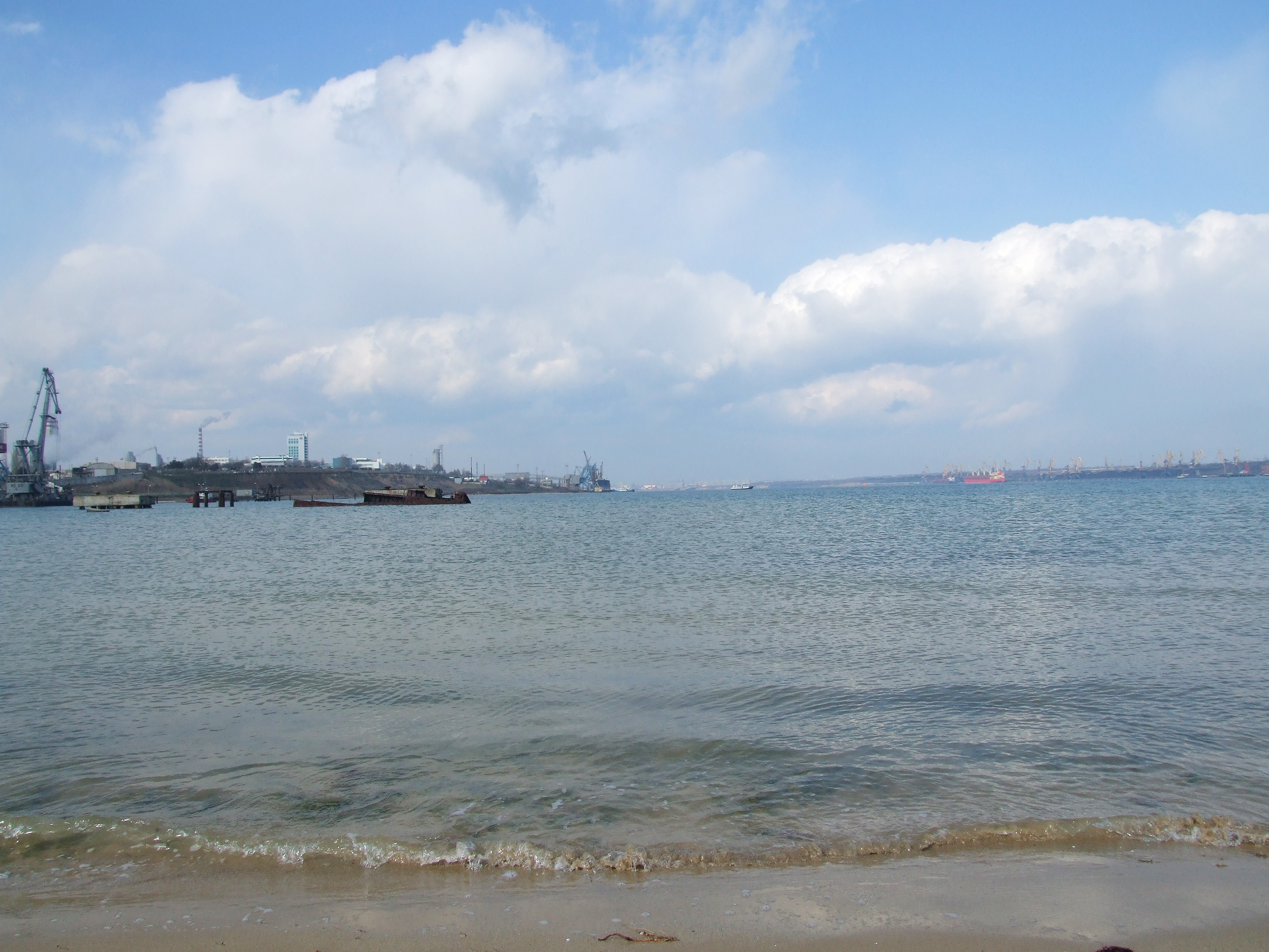 A view of Adzhalykskyi liman, Odessa Oblast, Ukraine